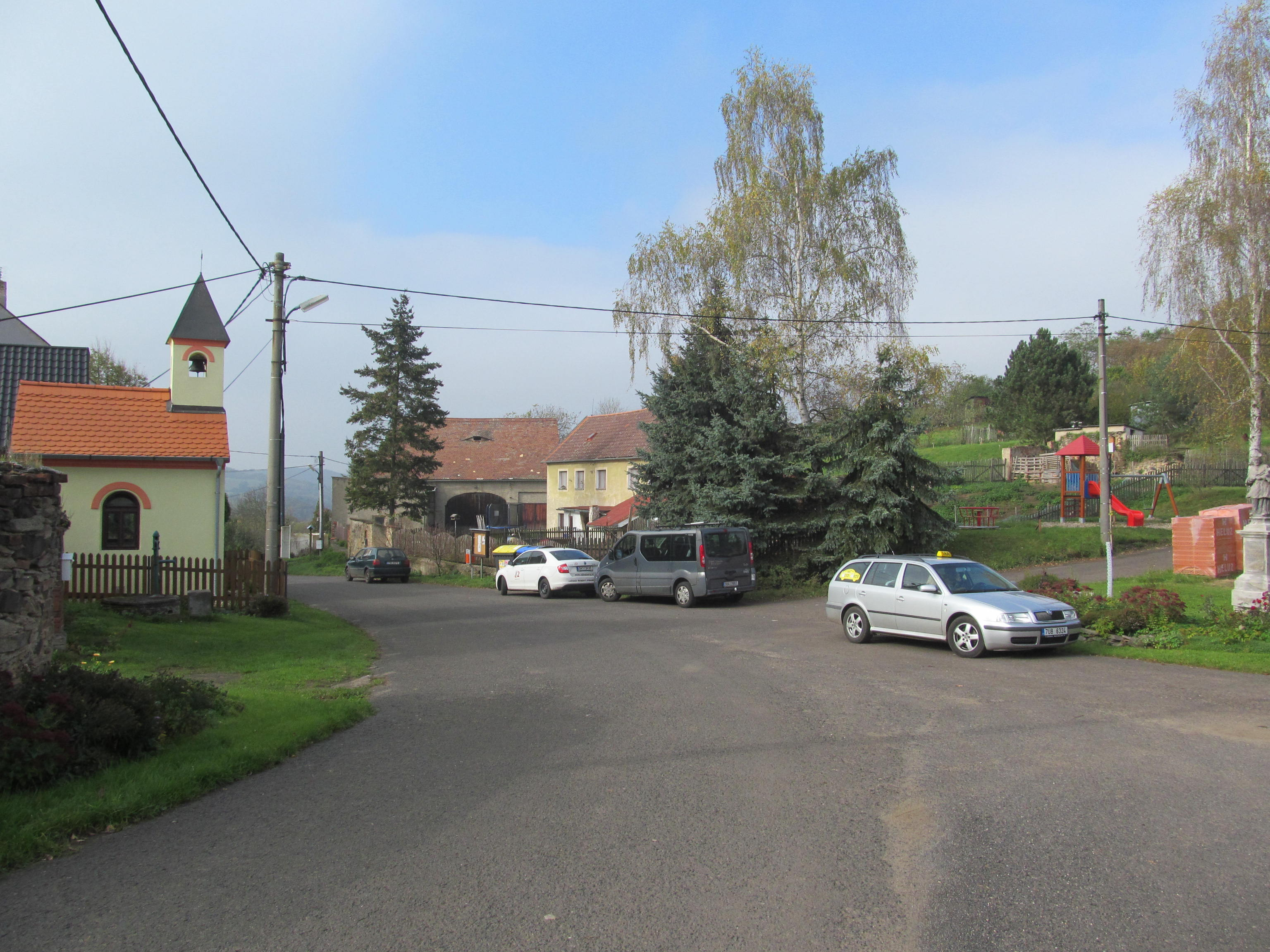 Village square in Vrahožily